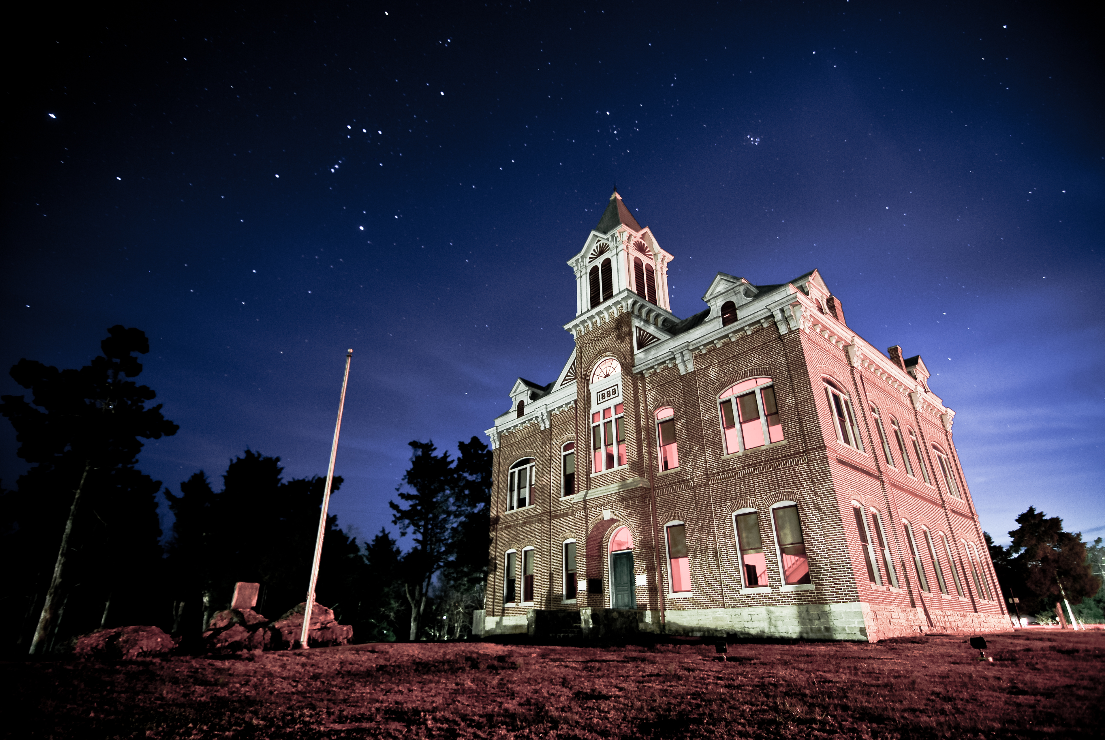 Photo of Powhatan Courthouse in Spring of 2011.